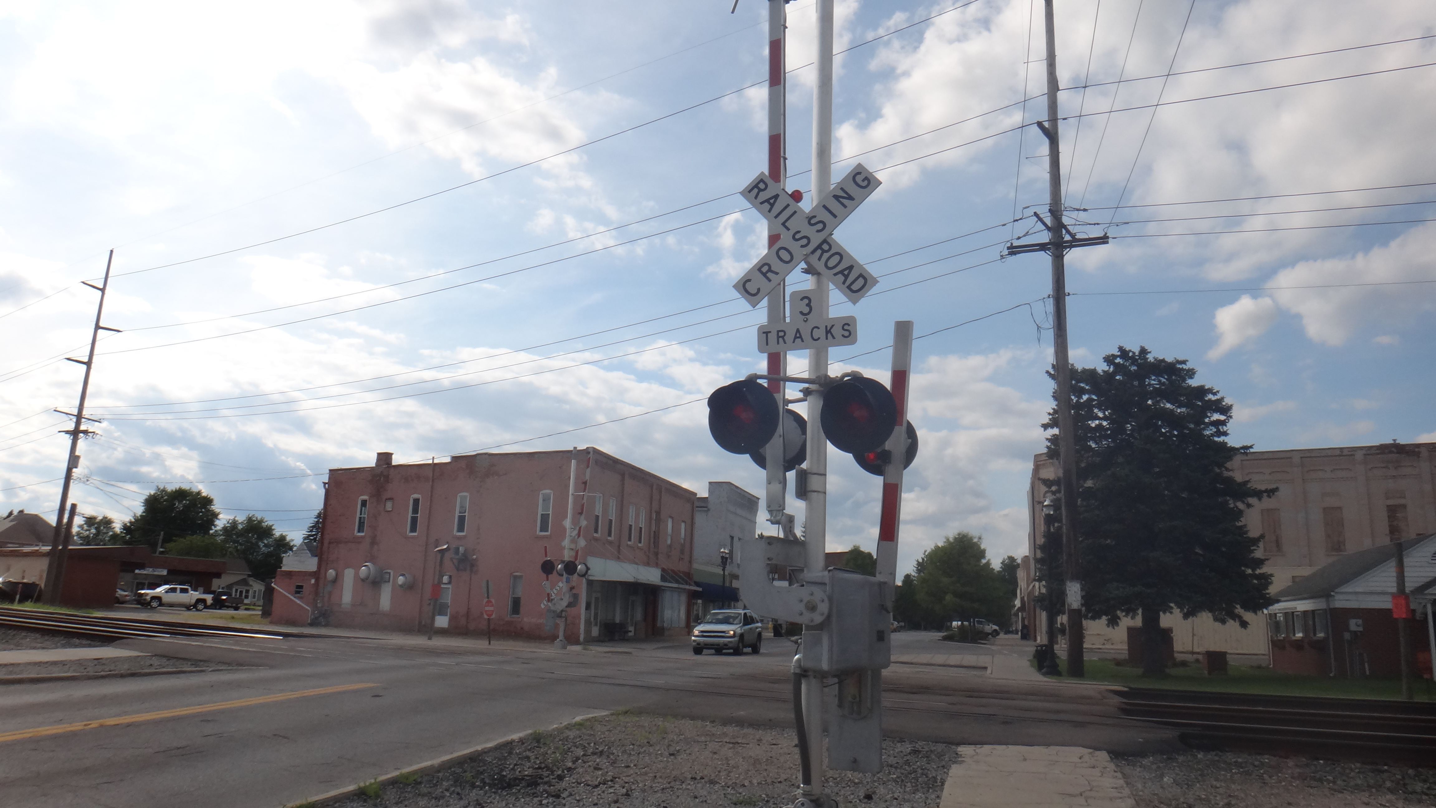 View of downtown Swanton, Ohio.